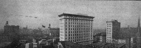 View of Knoxville, Tennessee, USA, circa 1919. The Holston National Bank building dominates the center of the photograph, with the Burwell Building (Tennessee Theatre) just to its right. The spire of the First Baptist Church (now located on Main Street) is visible on the extreme right.